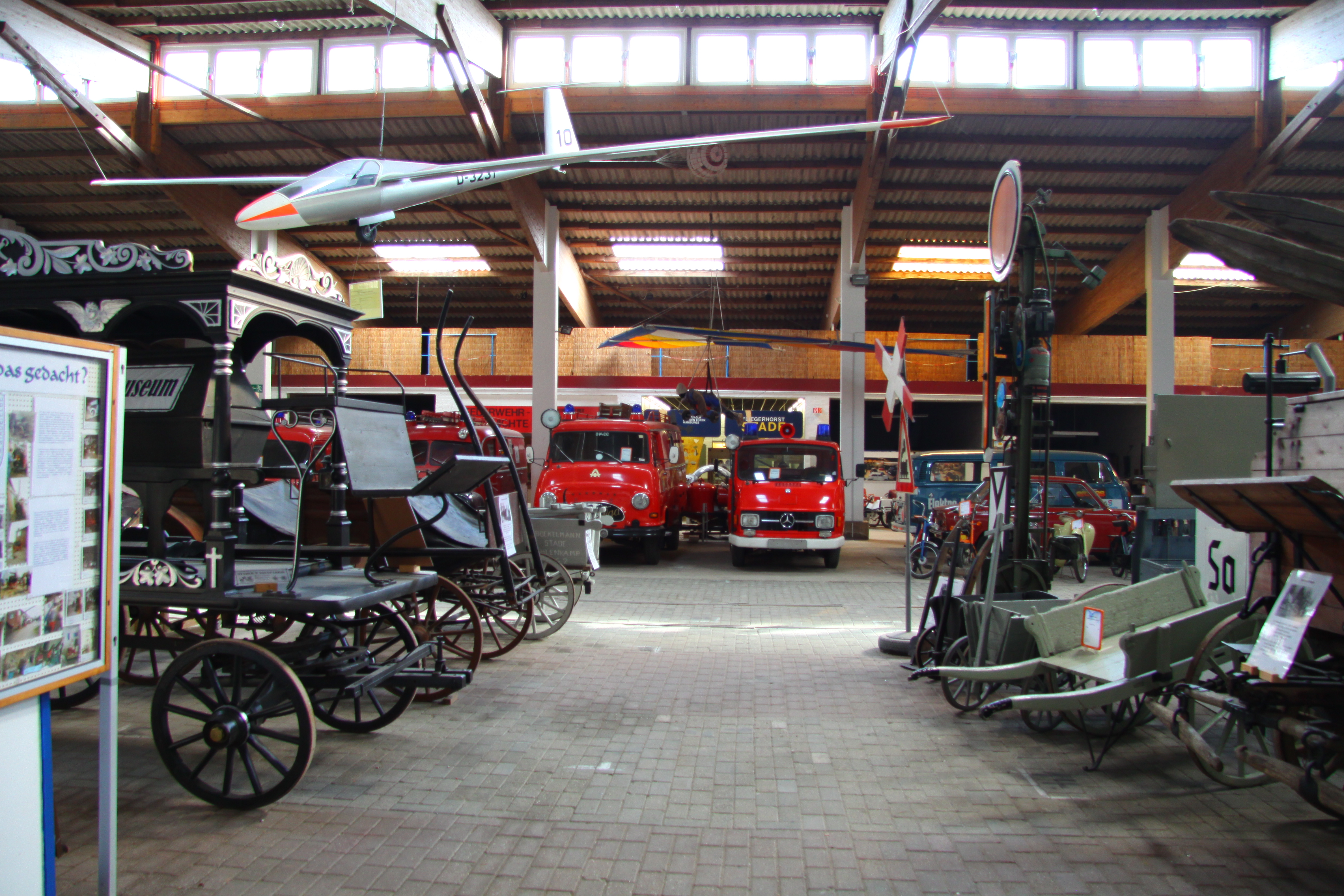 Glider Milomei M1 in the TuVM Stade